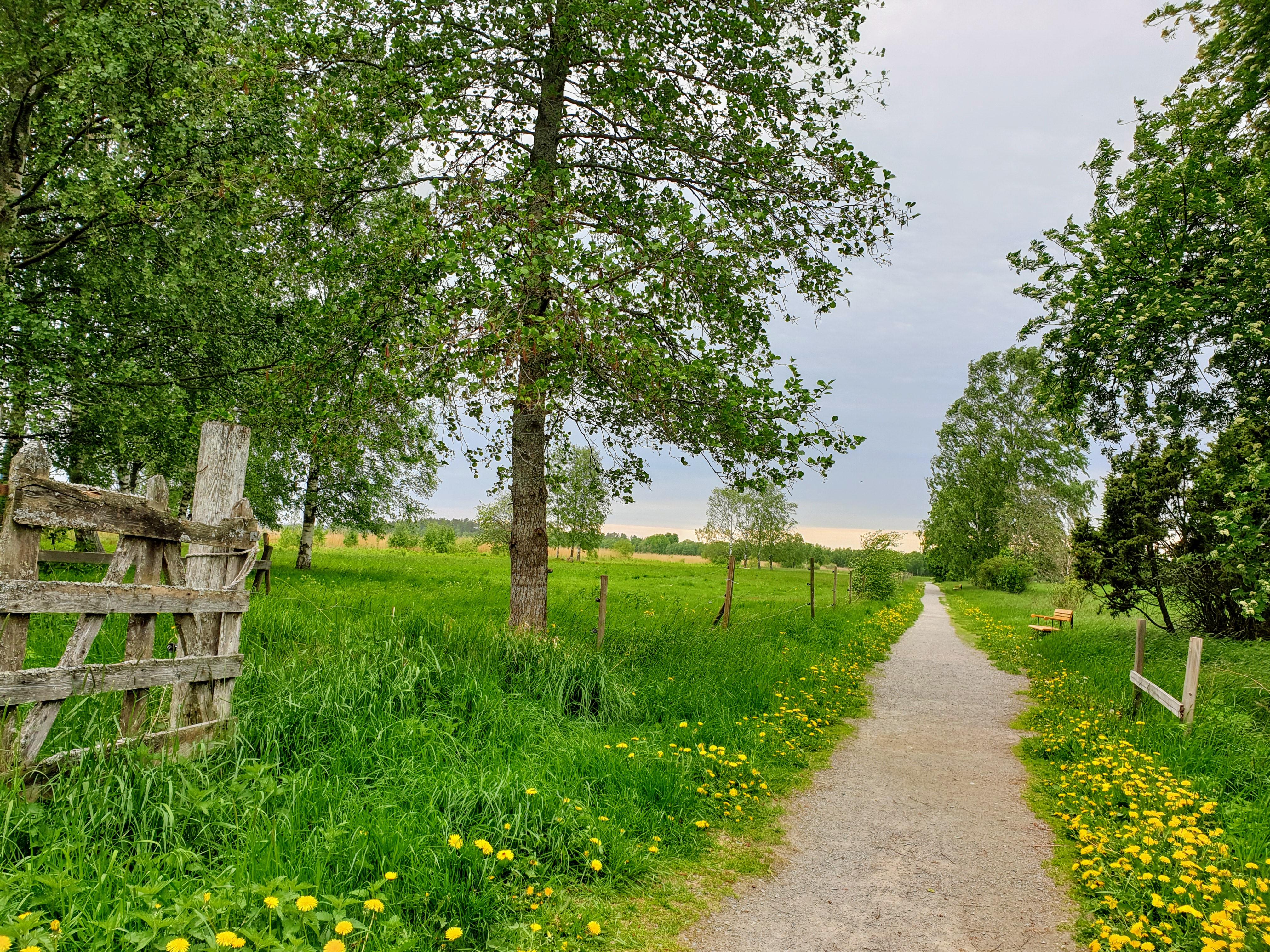 This is a path in Björkby-Kyrkvikens natural reserve in the municipality of Vallentuna, Sweden